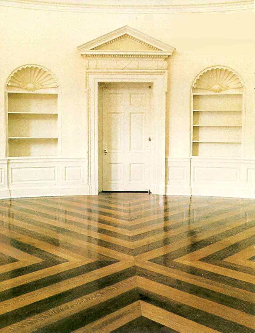 West wall of the Oval Office following the 2005 installation of a new quarter-sawn oak and walnut floor.